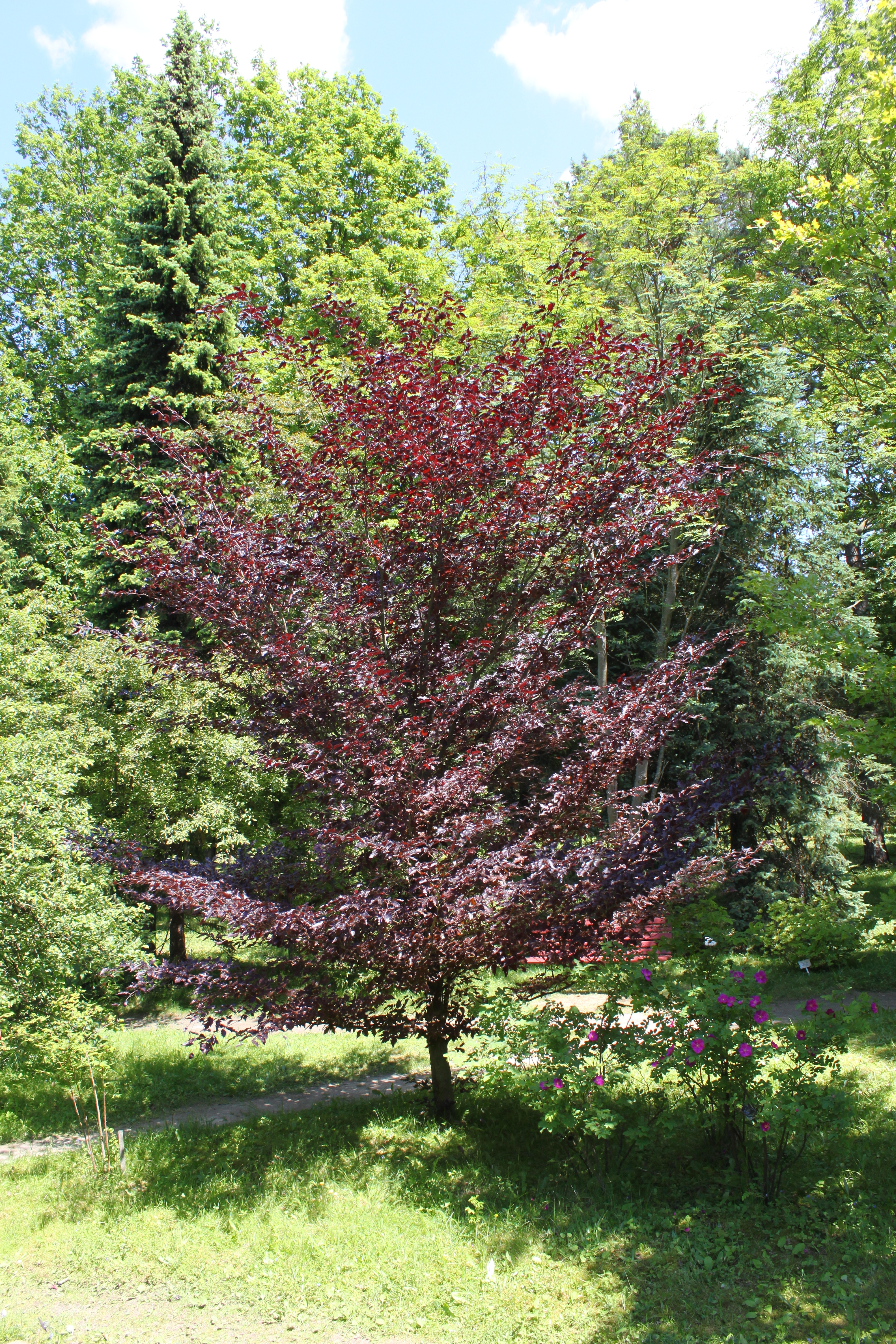 Fagus sylvatica 'Rohan Trompenburg' in Rogów Arboretum, Poland